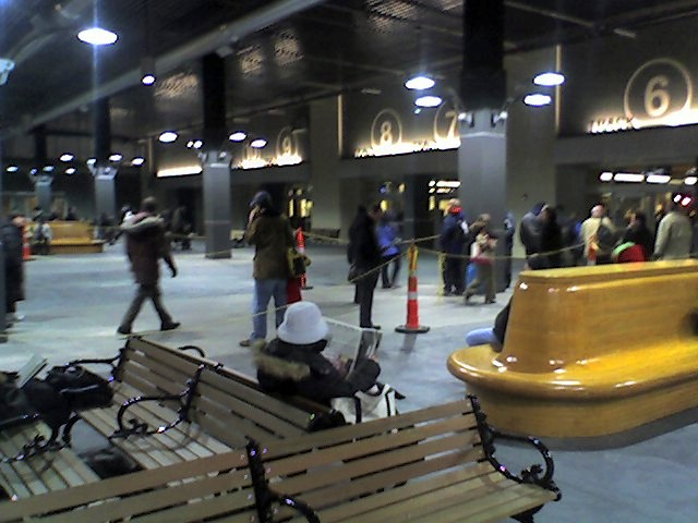 Waiting area at North Station in Boston in 2007